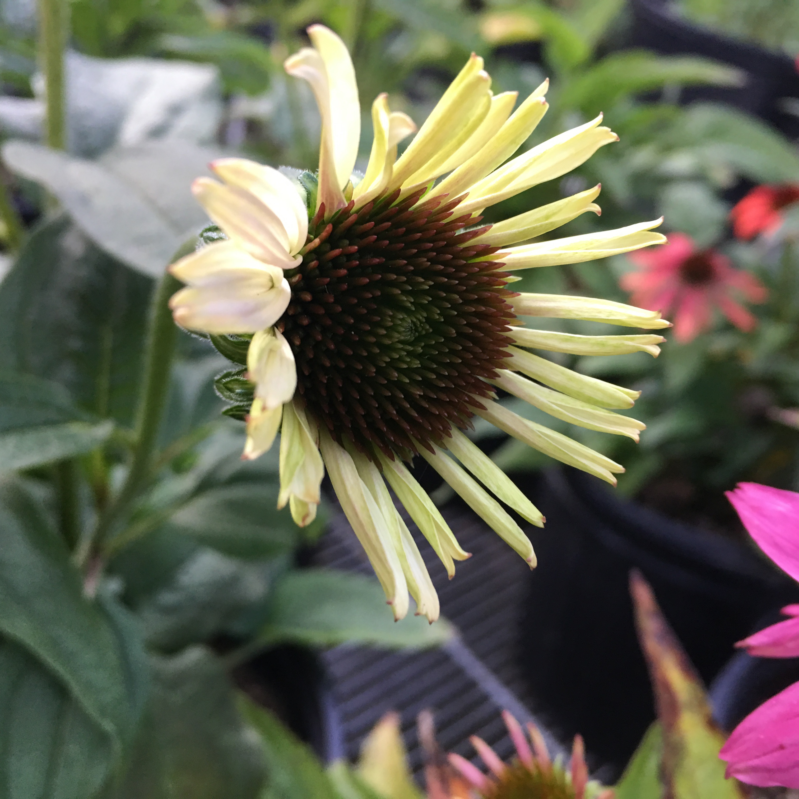 Echinacea purpurea hybrid on September 24, 2017 in Santa Rosa, Ca.